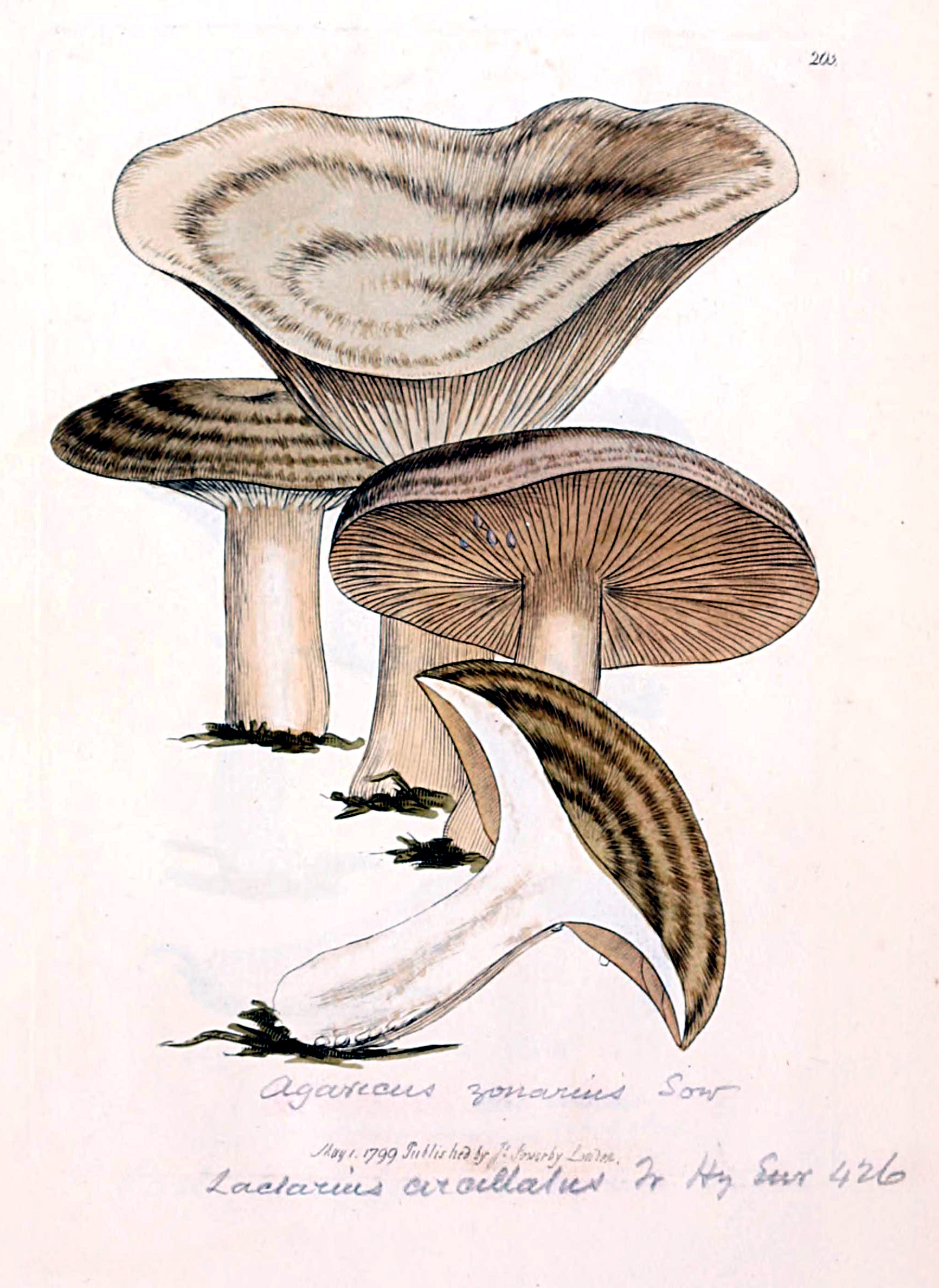 (1797) Coloured figures of English fungi or mushrooms Retrieved on January 25, 2013. TAB. CCIII. AGARICUS ZONARIUS. With. 3 ed. v. 4. p. 193; AGARICUS FUSCUS. Schaeff. 285. MUCH like A. deliciosus, but constantly of a browner colour, and the lamellae in fets, not branching or anastomosing, somewhat rounding from the stem, varying from almost white to fuscous. The milk is conftantly very acrid.